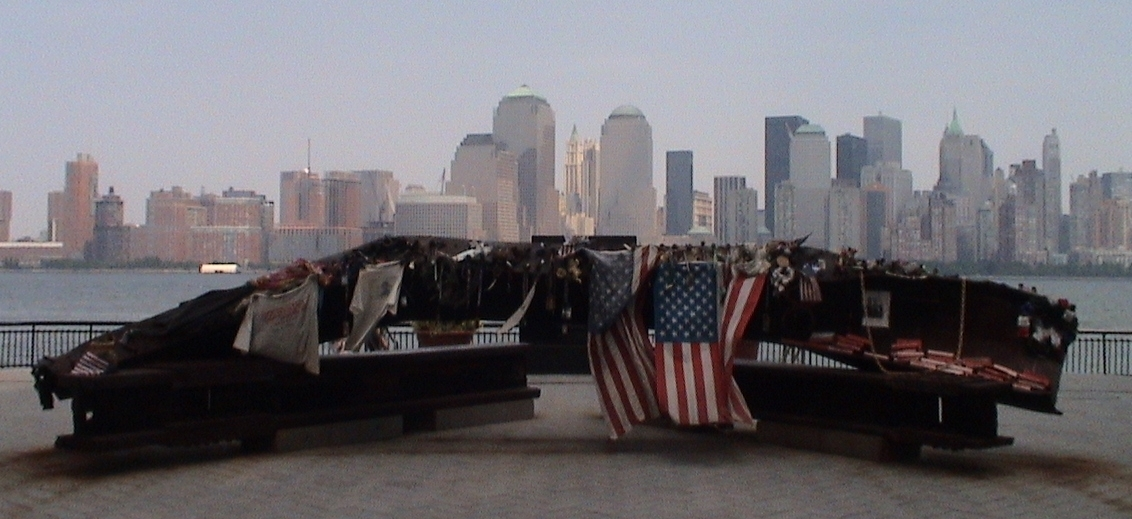 View of the former location of the twin towers